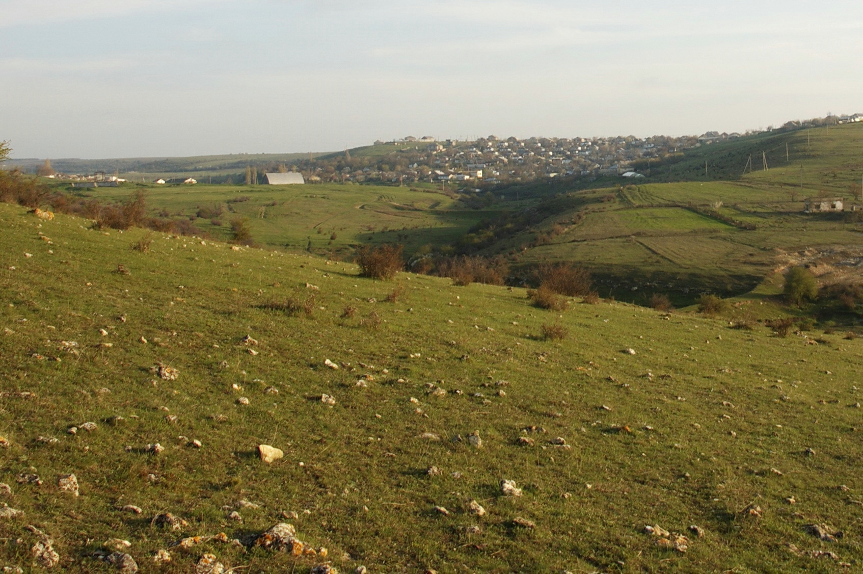 Vicinities of Malovidnoye / Ediş Eli Village